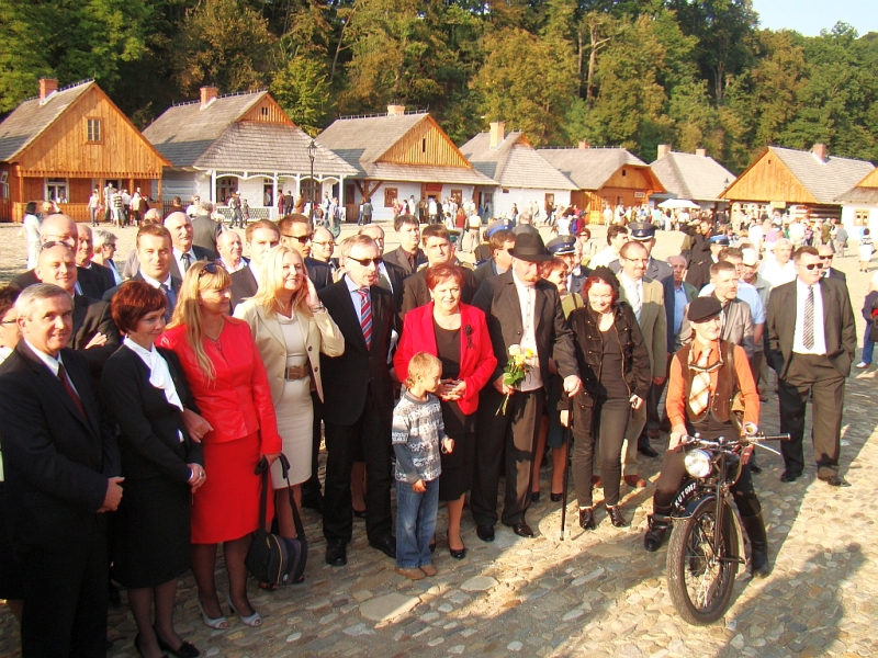 Galician market square in Skansen, Sanok